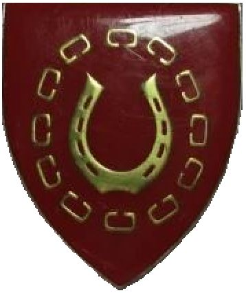 SADF Regiment Pretorius shoulder flash